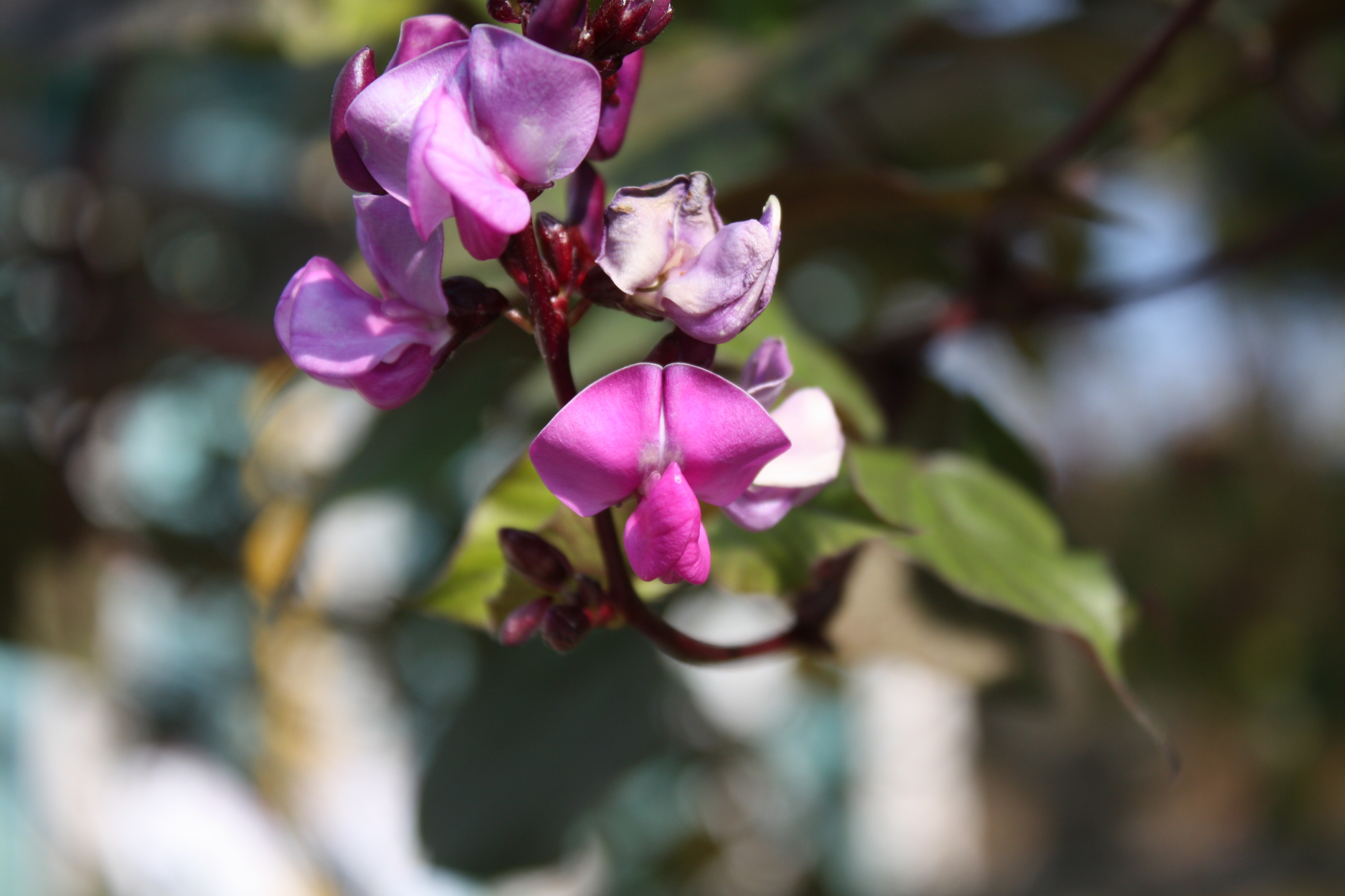 Lablab purpureus in Hampyung, Korea